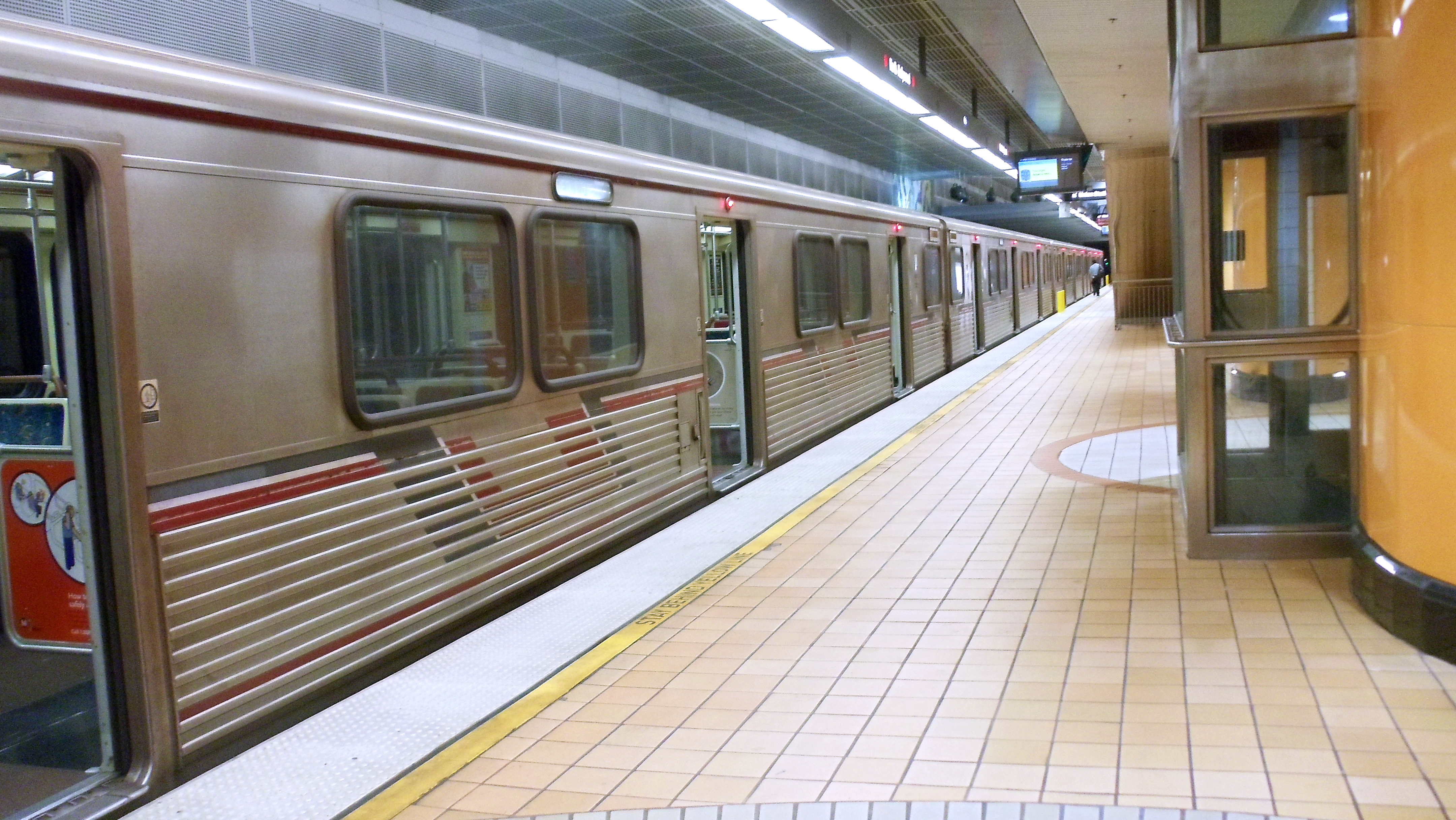 Train at North Hollywood Metro Red Line Station.